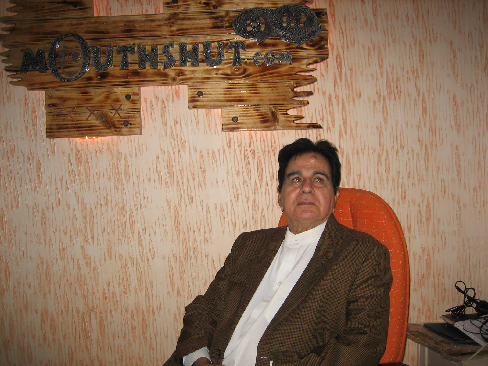 Dilip Kumar's visit to office in 2006